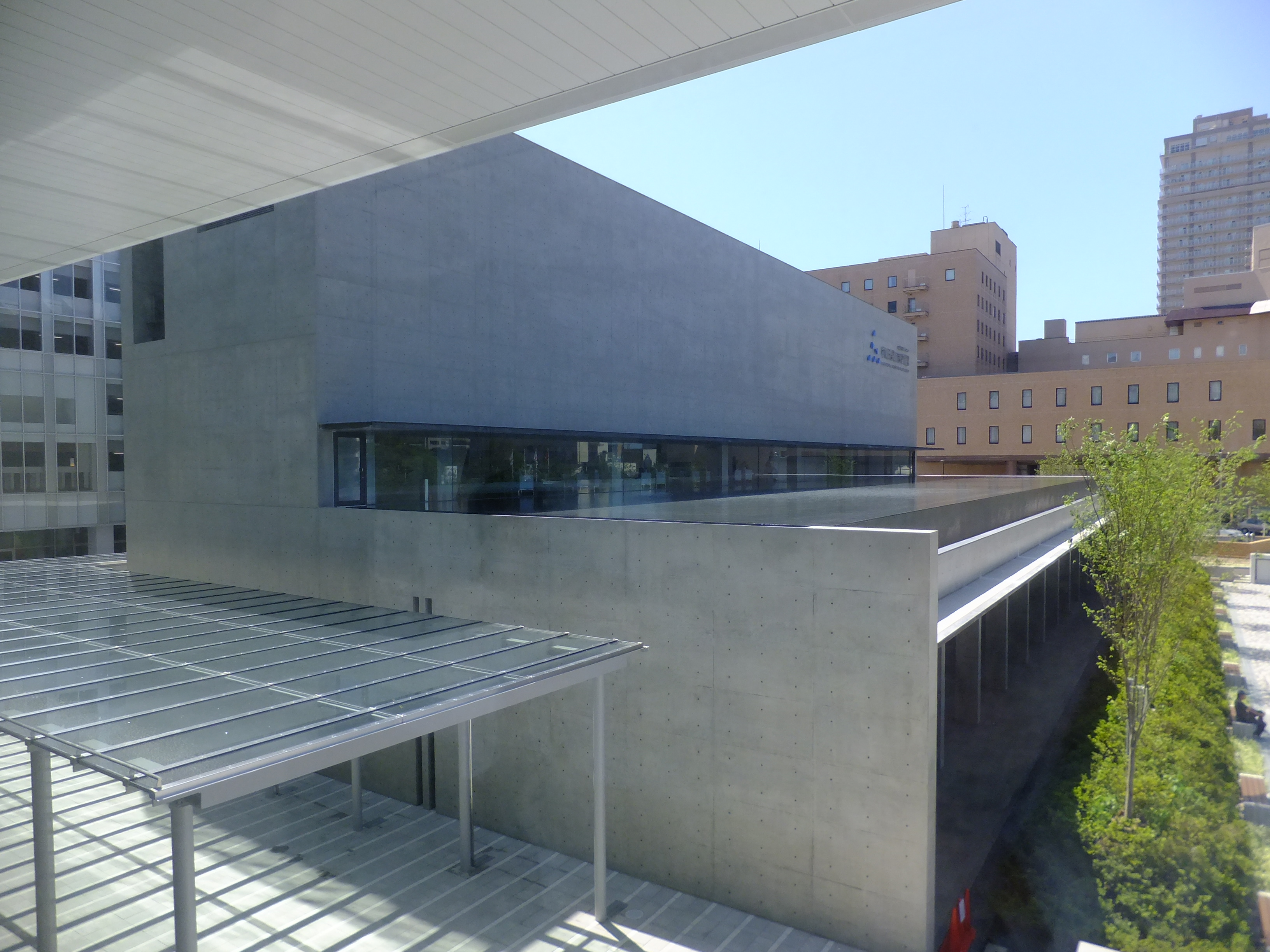 east side of the Akita Museum of Art